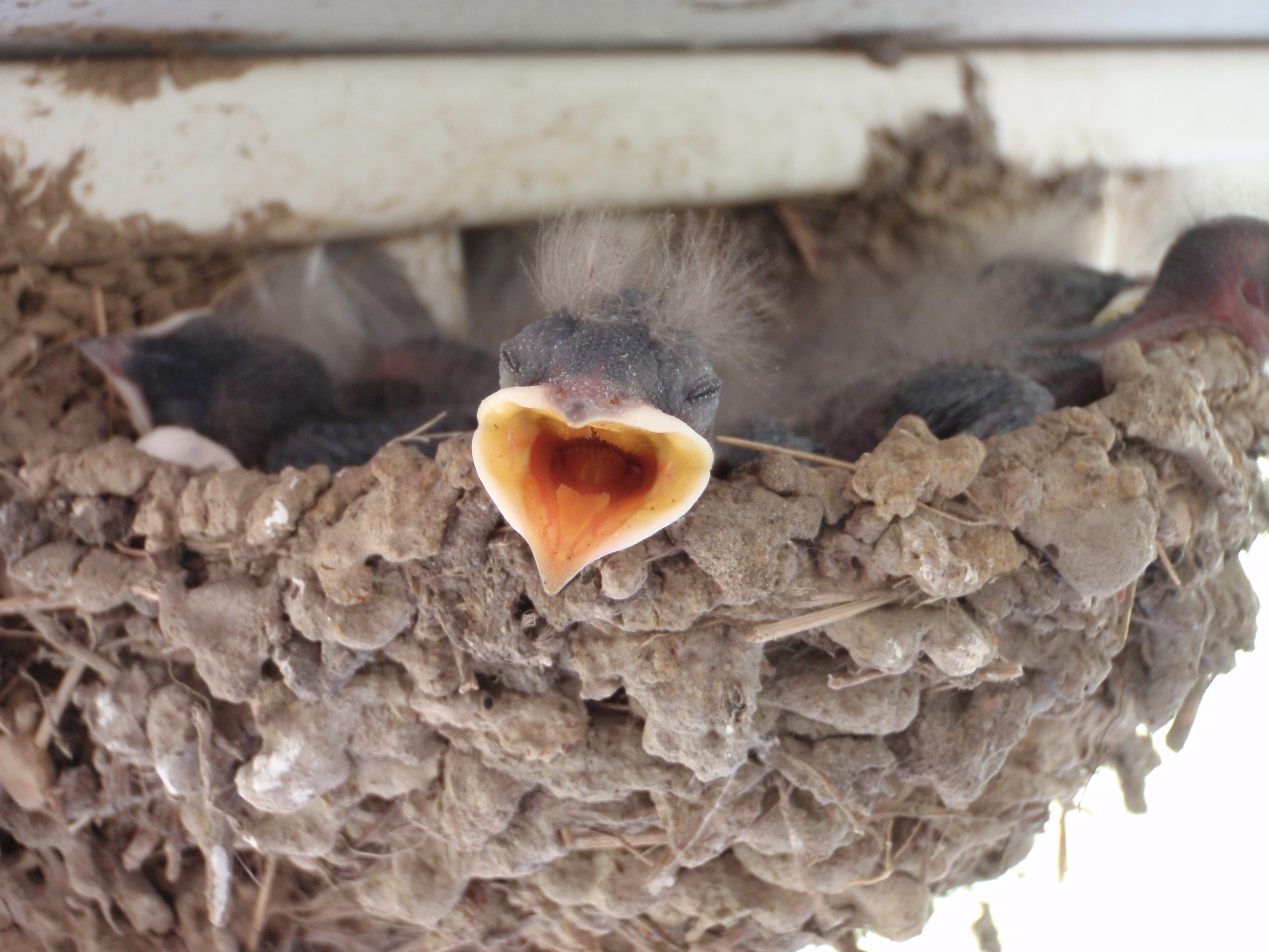 Barn Swallow nestlings, Hirundo rustica; baby bird begging for food, also known as gaping; mouth flanges visible, bright red mouth; downy covered; in Mississippi